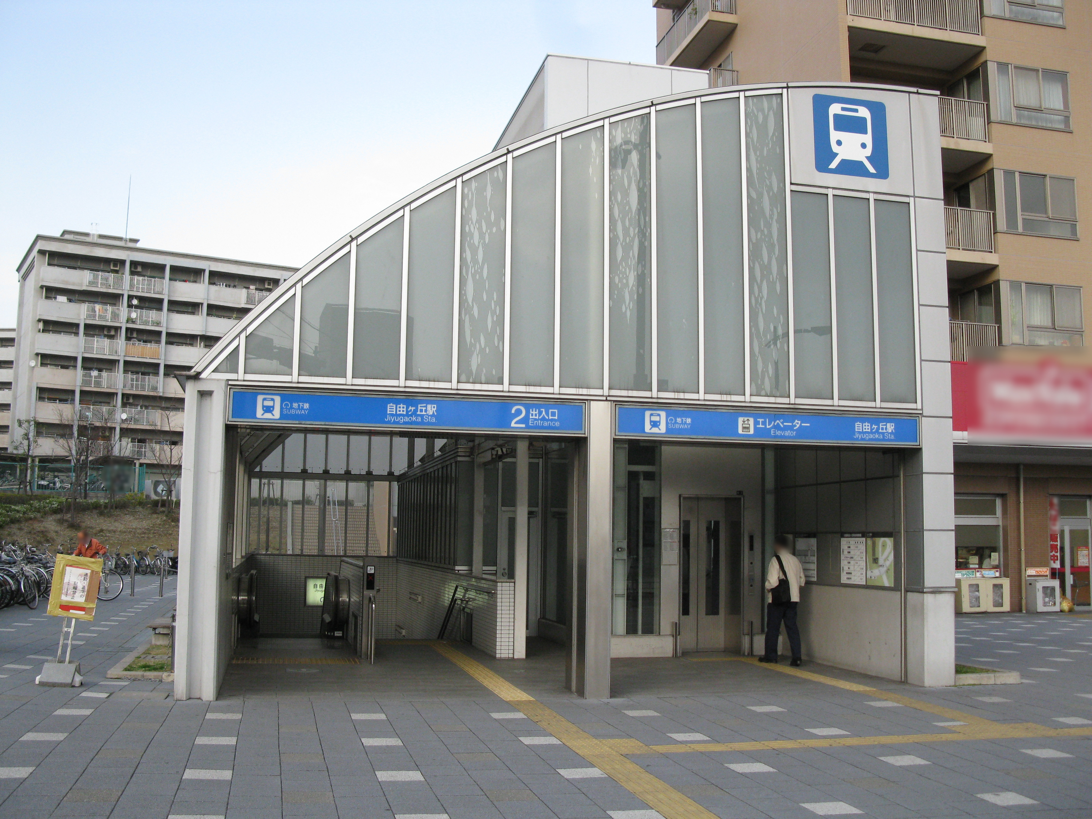 Jiyūgaoka Station no.2 entrance (Nagoya Municipal Subway Meijō Line)